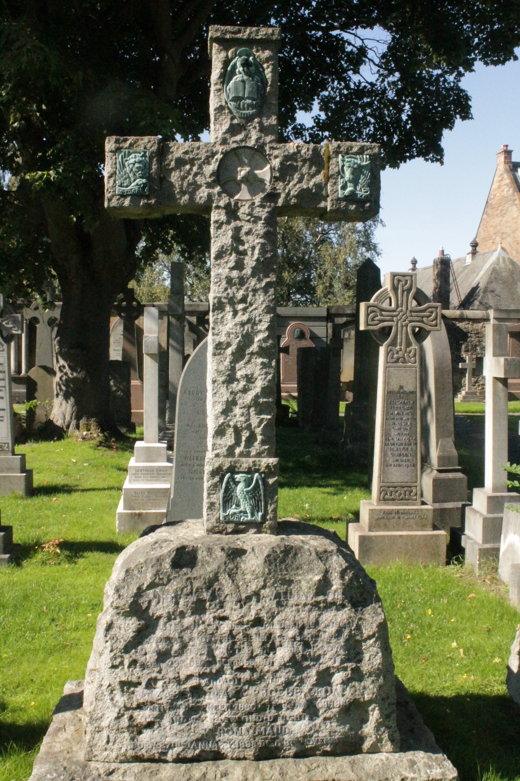 The grave of Rev Dr Andrew Wallace Williamson, Dean Cemetery